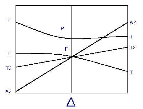 F and P Orgel Diagram